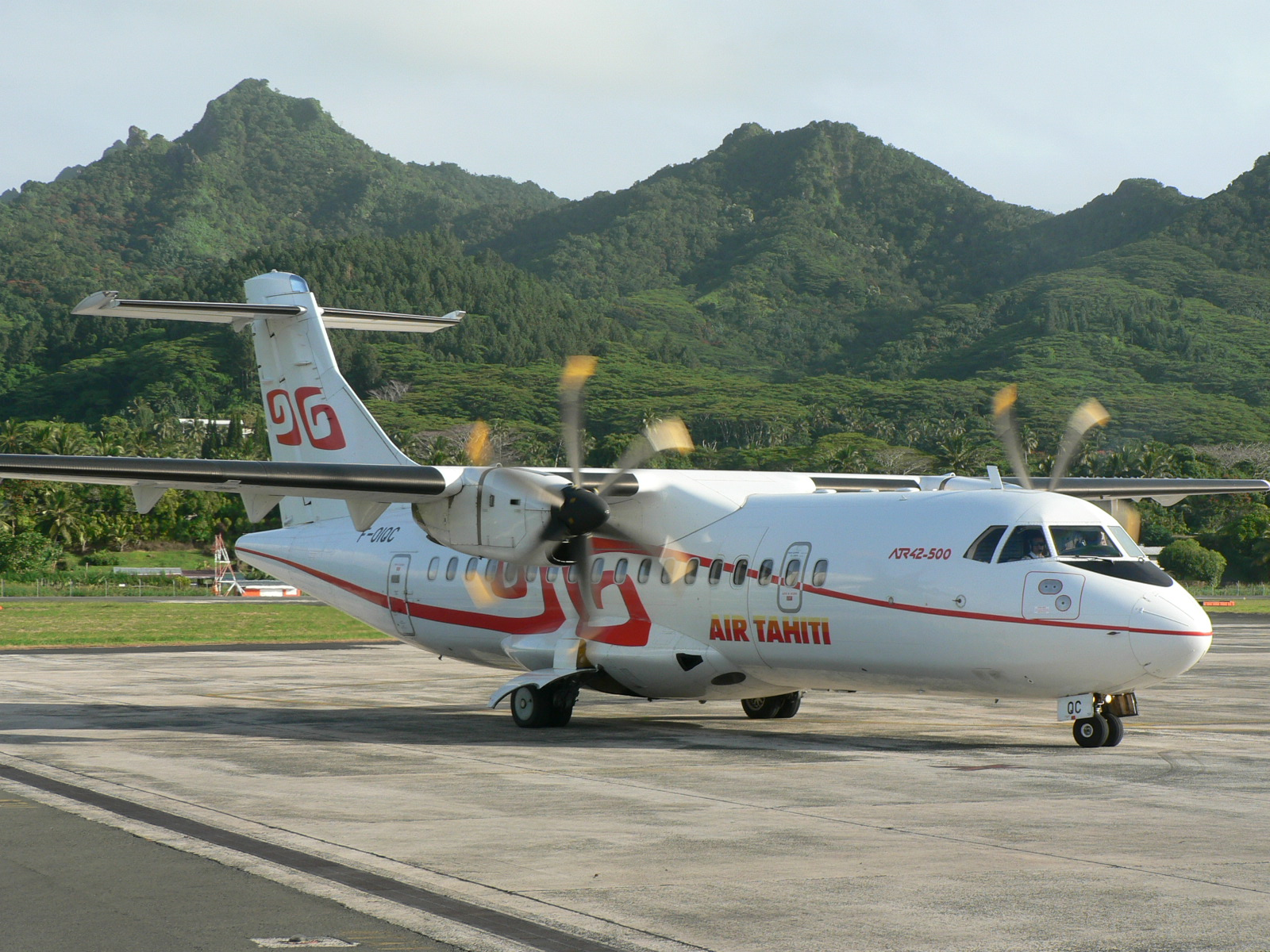 Air Tahiti ATR 72-500 (F-OIQC) at Rarotonga Airport